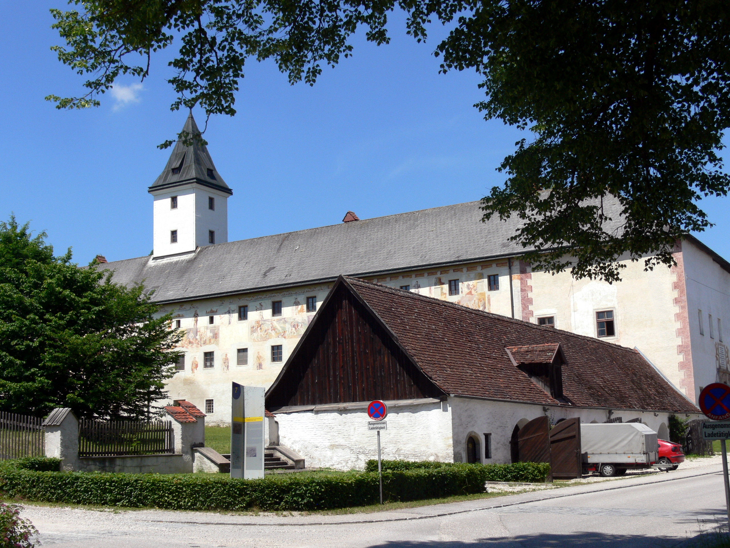 Parz castle ( Upper Austria ).